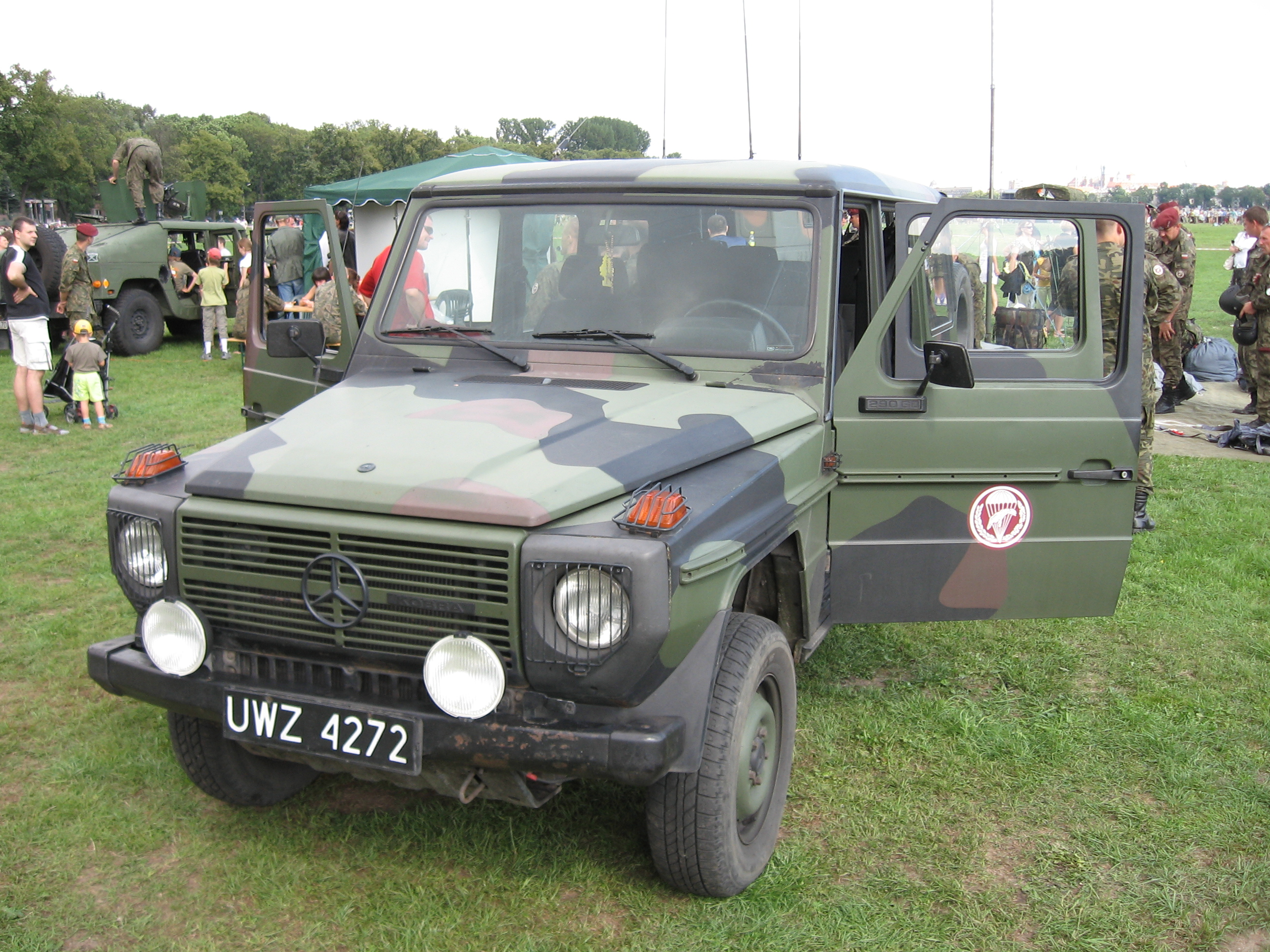 Mercedes-Benz G-class four wheel drive vehicle (290 GD) of the 6th Air Assault Brigade.